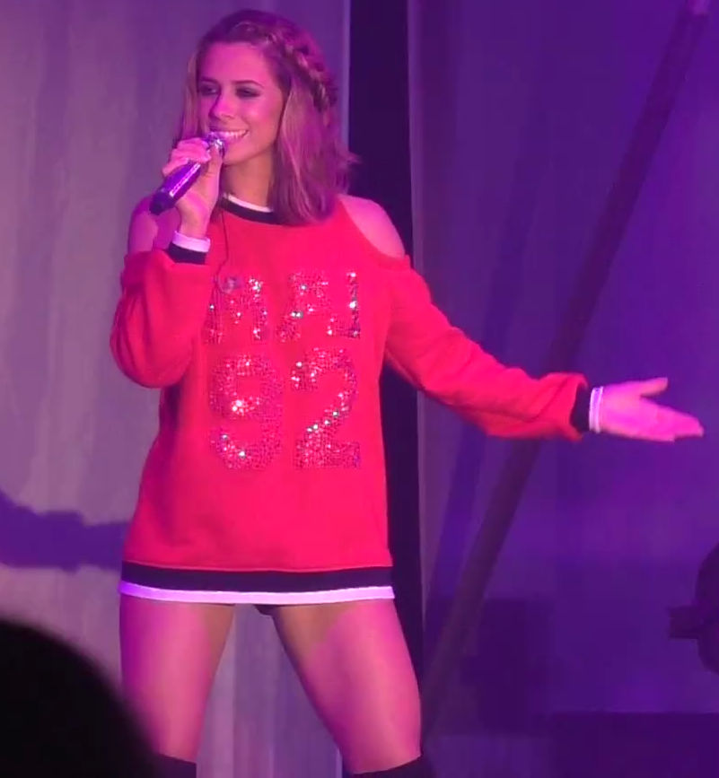 German Pop-Schlager-Singer Vanessa Mai during her "Für Dich Tour" at Alter Schlachthof, Dresden, Germany (24th October 2016).